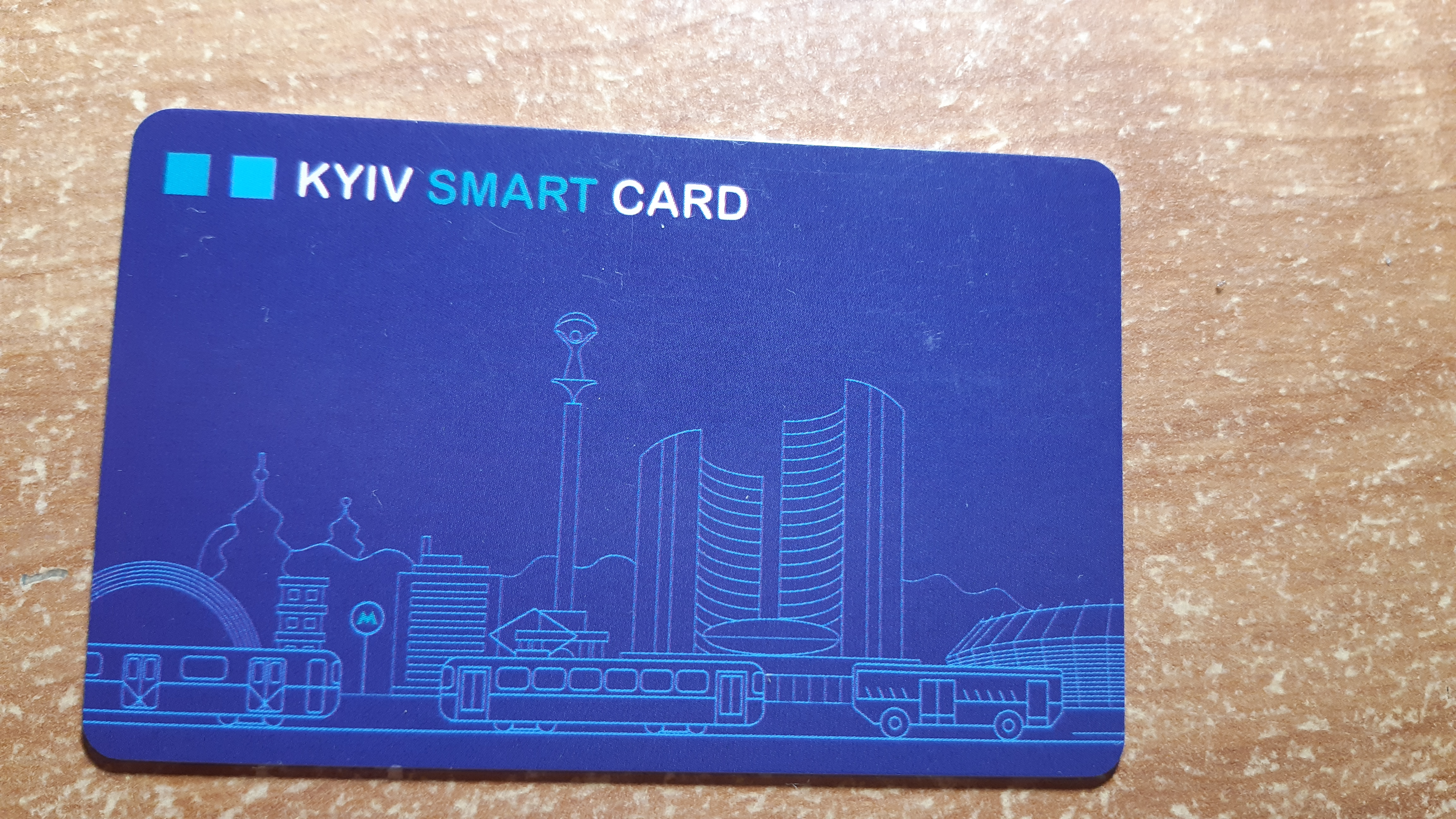 Passangers can pay in all municipal tranport by this card.